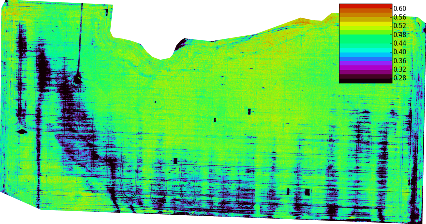 DroneMapper Processed NDVI @ 4 cm / px obtained with UAS/Drone platform